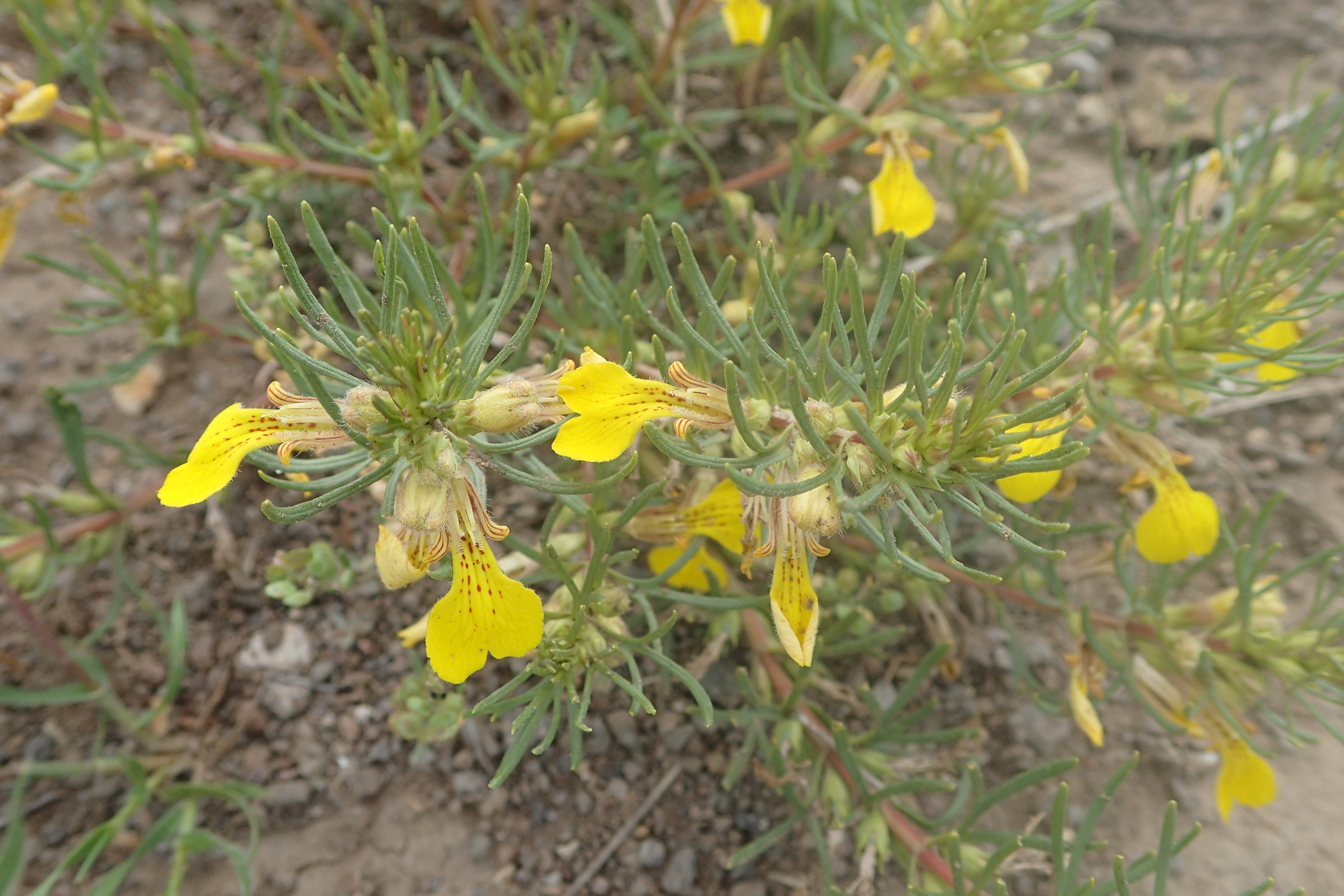 Ajuga chamaepitys subsp. chia in Voghjaberd (Armenia)